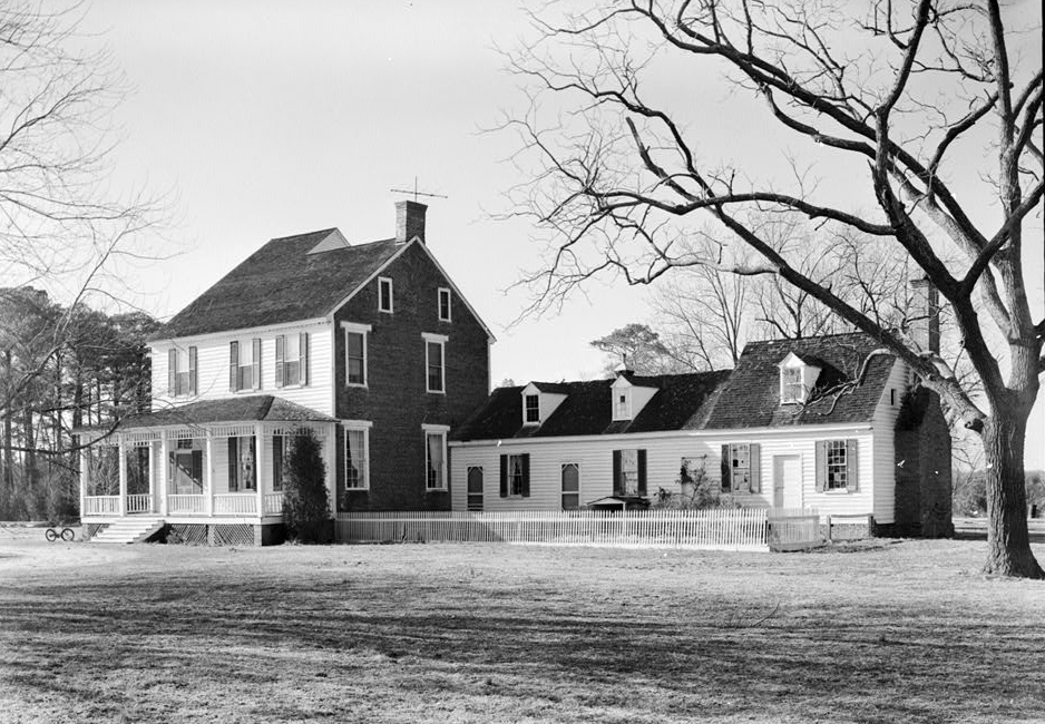 Caserta (destroyed), Northampton County, Virginia, USA